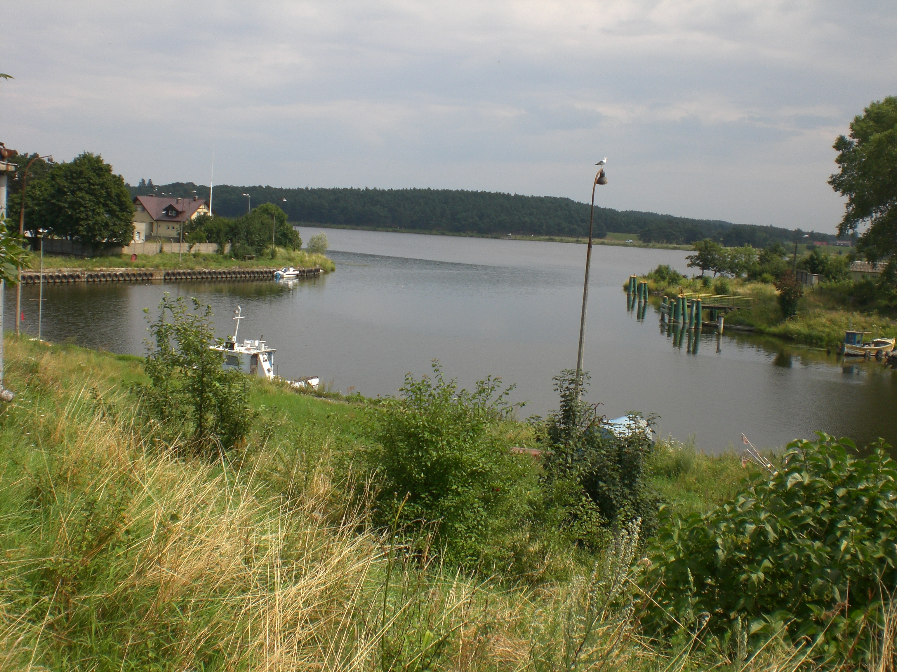 River port Świbno in Gdańsk